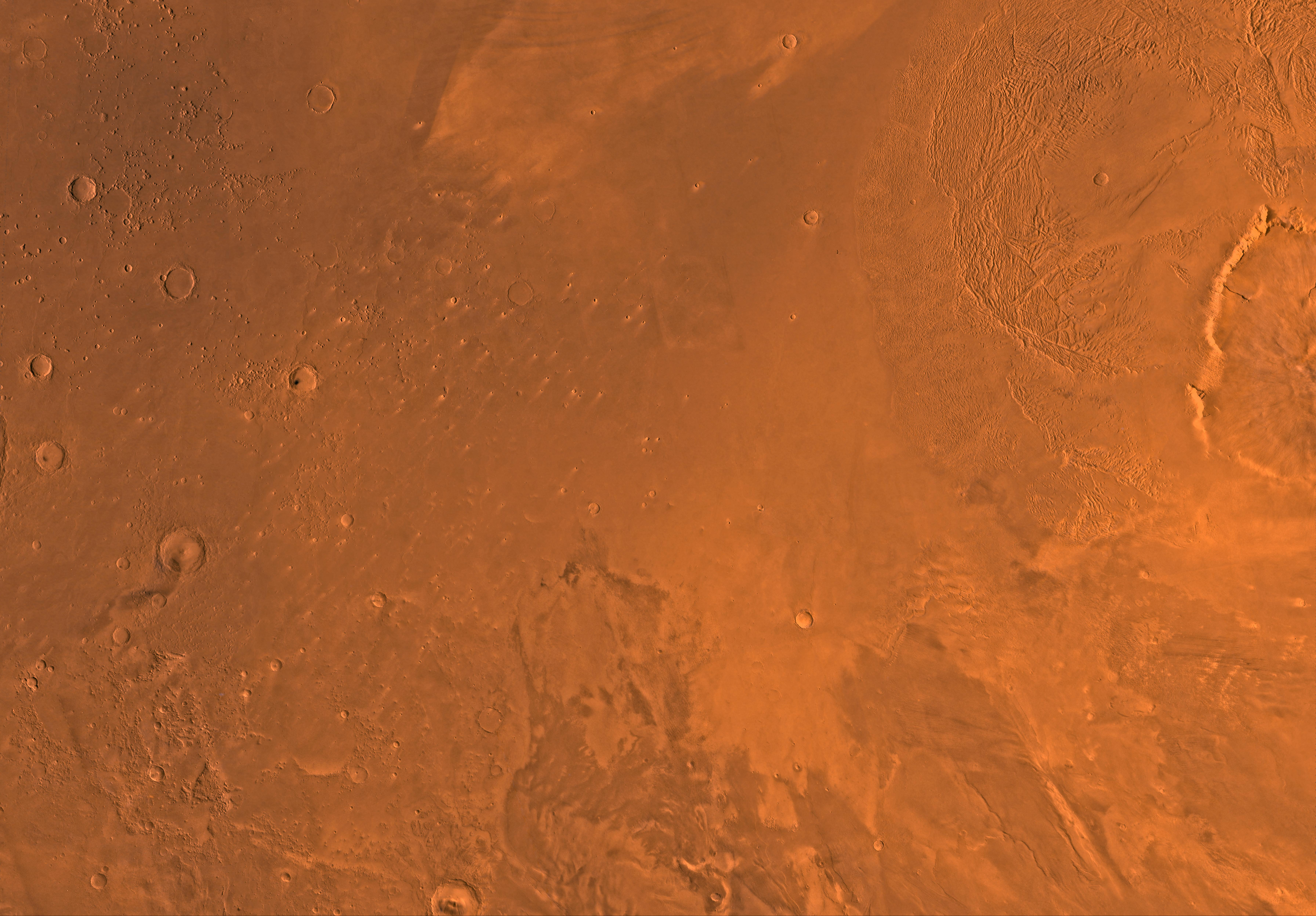 PIA00168: MC-8 Amazonis Region Mars digital-image mosaic merged with color of the MC-8 quadrangle, Amazonis region of Mars. The central part, which is dominated by light-colored, relatively smooth to hummocky plains of Amazonis Planitia, is partly bounded to the east by the western flank of the largest known volcano in the solar system, Olympus Mons, and its associated aureole deposits. Moderately cratered knobby terrain is west of the plains of Amazonis Planitia. Latitude range 0 to 30 degrees, longitude range 135 to 180 degrees.